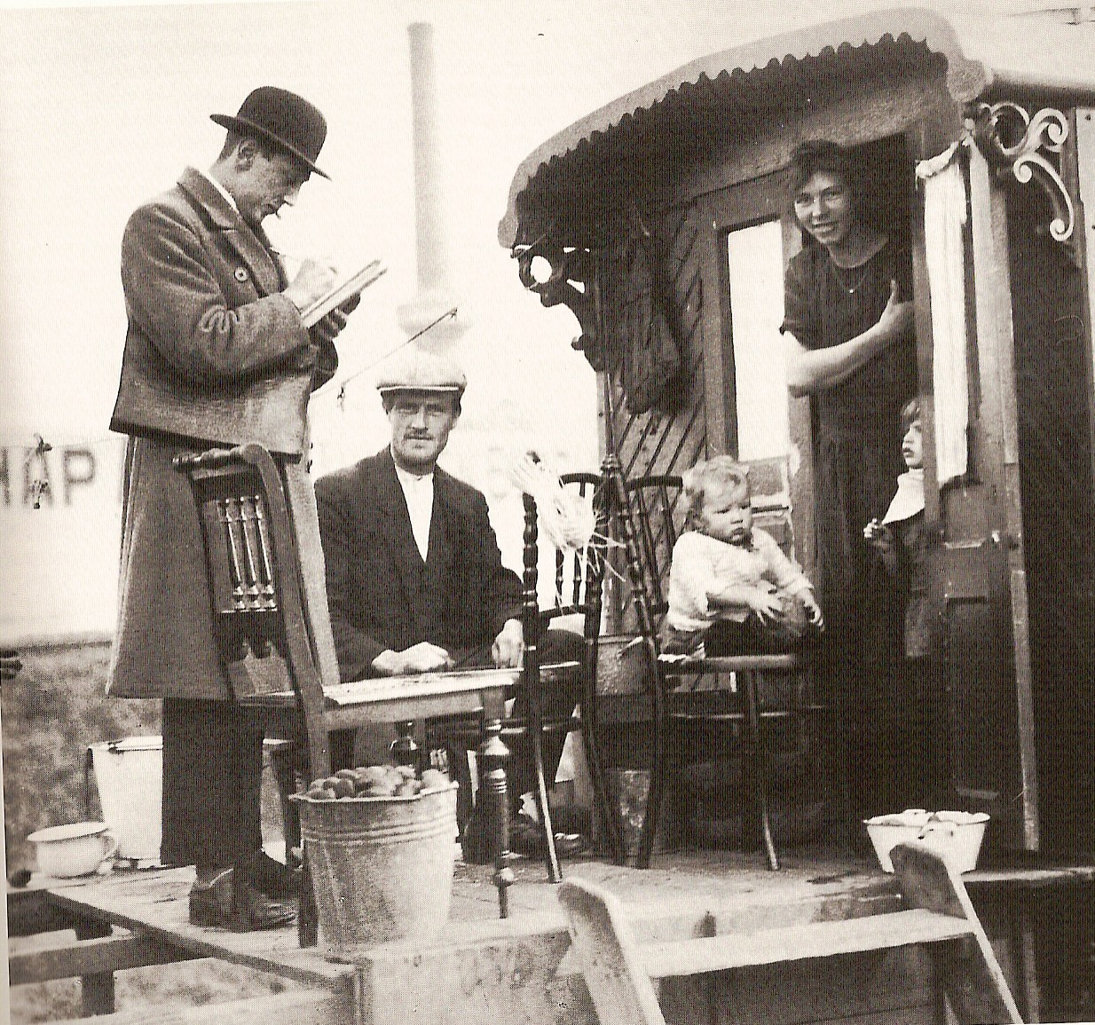 Census taker at the wagon of Indigenous Dutch Travellers Gieleman Theunisz, Tonia Huurman, and their children Antonia and Anne Theunisz, 1925,verdine, the Netherlands.